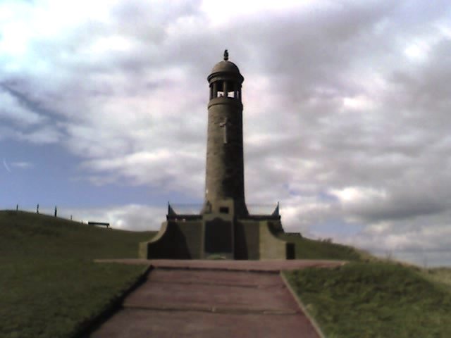 Highfields